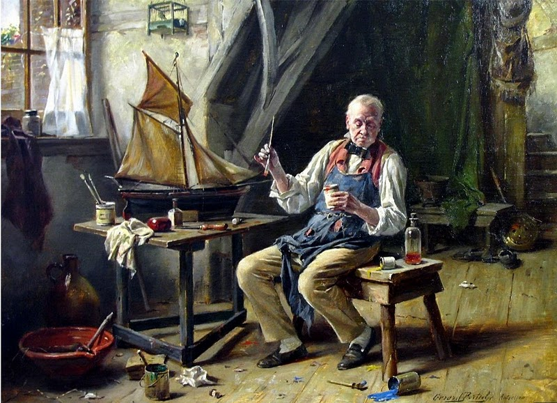 The Model Maker